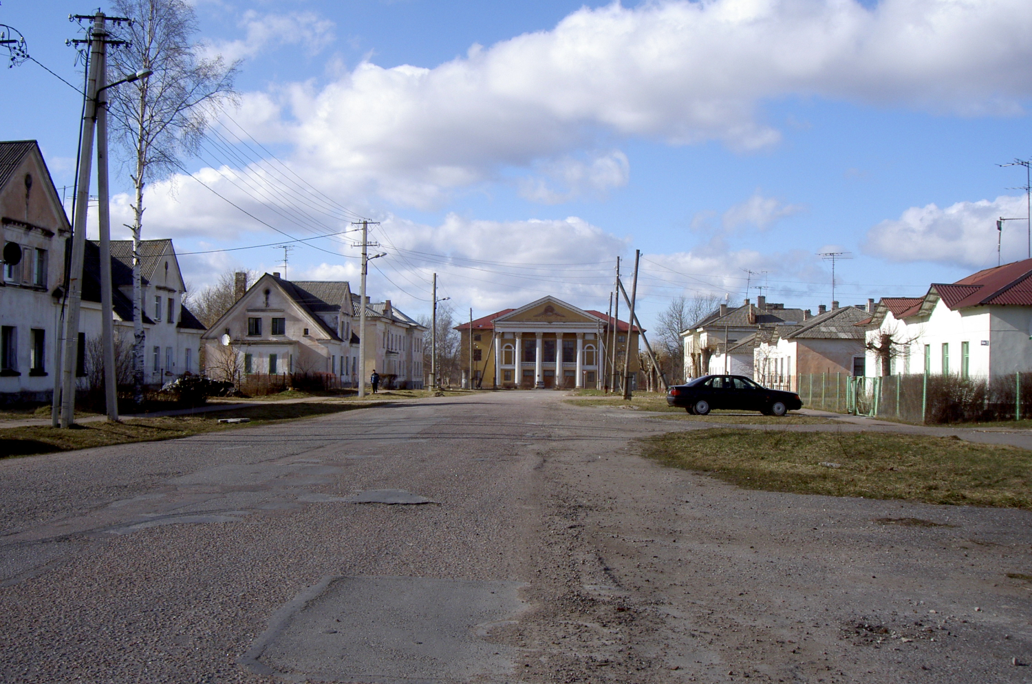 Sompa